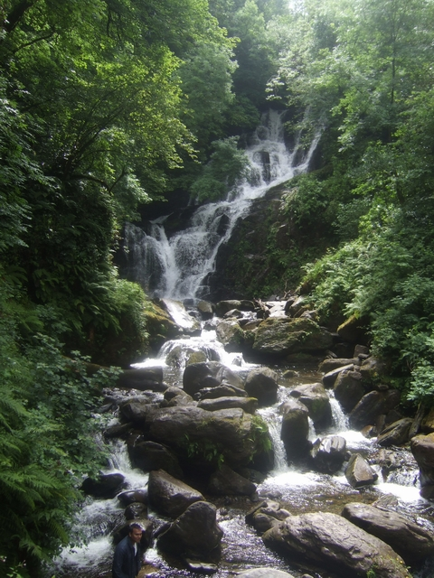 Torc Waterfall One of the popular tourist sights near Killarney.